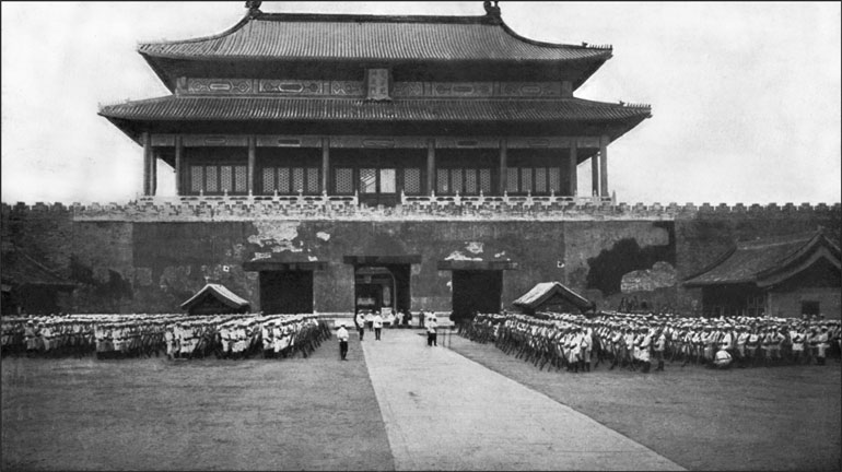 Russian troops in Pekin